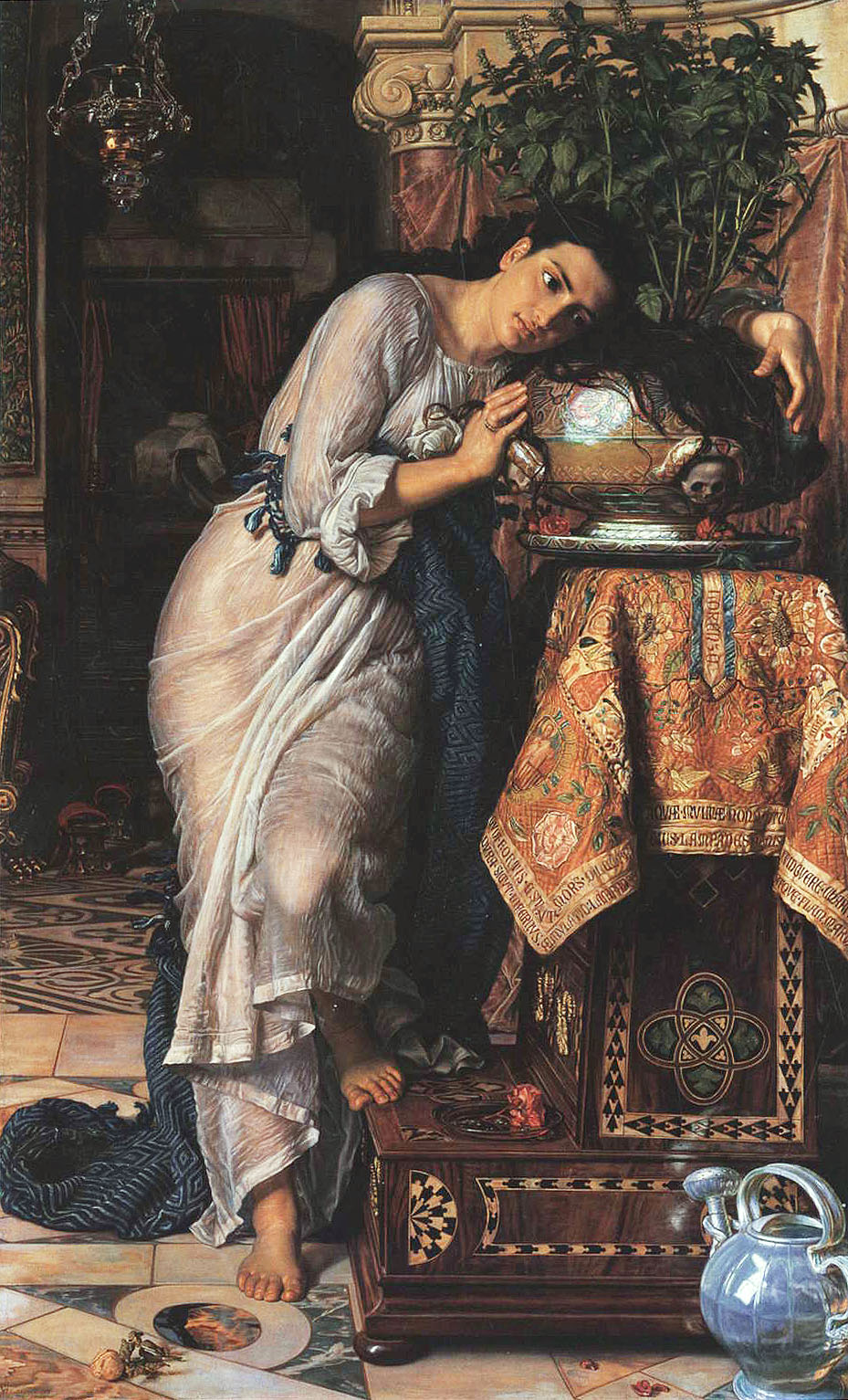 Isabella and the Pot of Basil